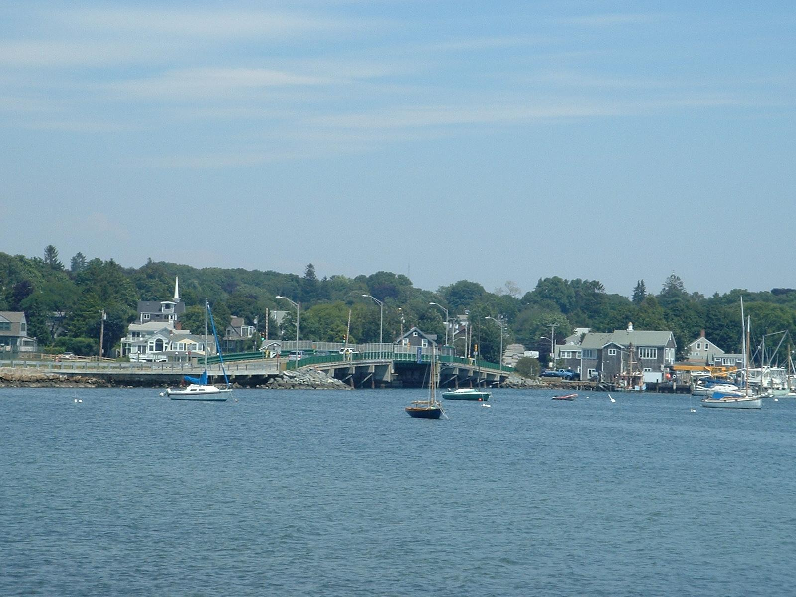 The Padanaram Bridge, leading to the village of Padanaram, in Dartmouth, Massachusetts.